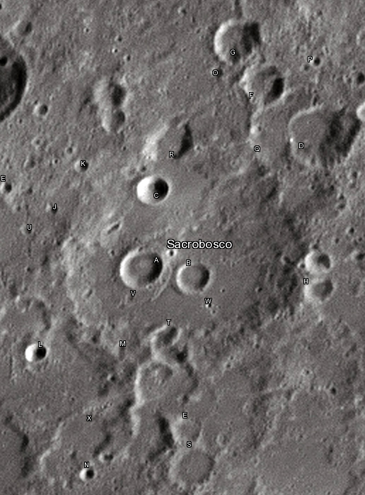 Sacrobosco lunar crater as seen from Earth with satellite craters labeled